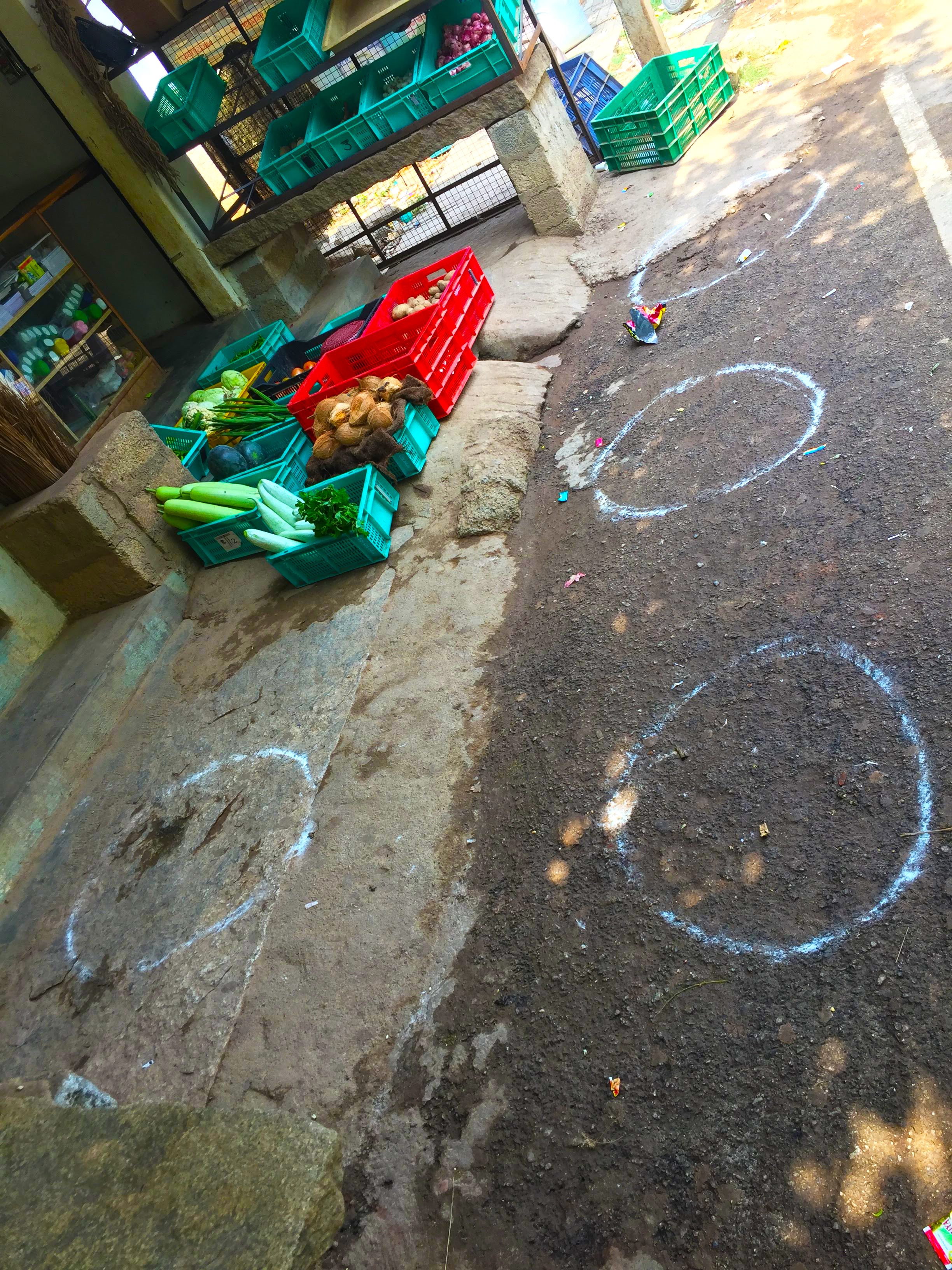 Circles drawn using chalk in front of a store in Bengaluru, Karnataka, India to guide customers for maintaining social distancing.